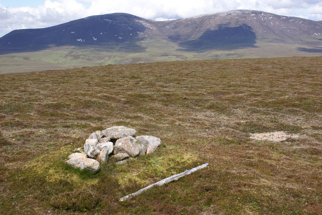 Braigh na h-Eaglaise The summit cairn leads the eye towards Scaraben whose main top is seen on the right.